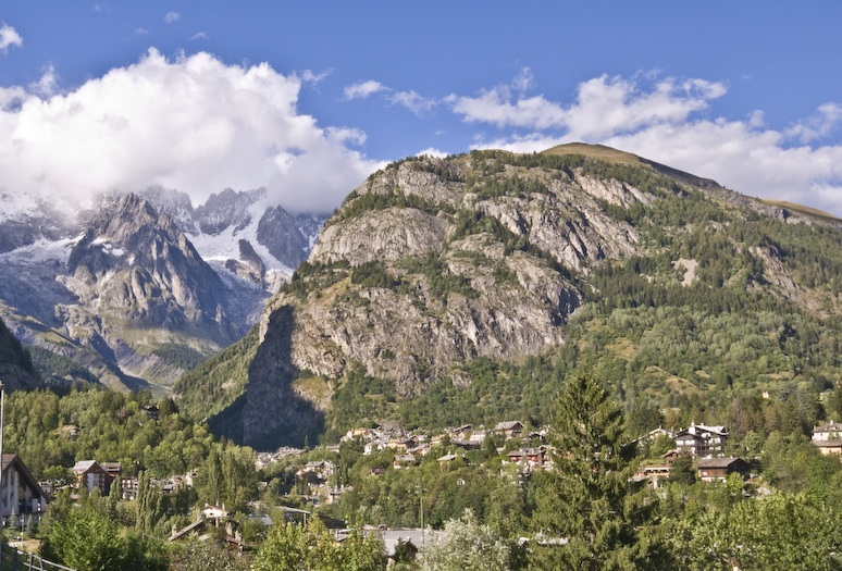 View of Courmayeur from Dolonne.